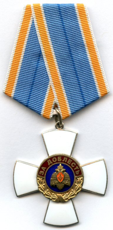 Russian Federation, Ministry for Emergency Situations (EMERCOM). CROSS OF VALOUR. Instituted on 30 May 2005 by ministerial order No 426. Awarded to soldiers of the civil defence forces, military personnel, members of the State Fire Service or employees of the Ministry of Emergency Situations of Russia for bravery and courage shown in saving lives and property, flawless execution of duty, that were previously honoured with government or departmental awards.